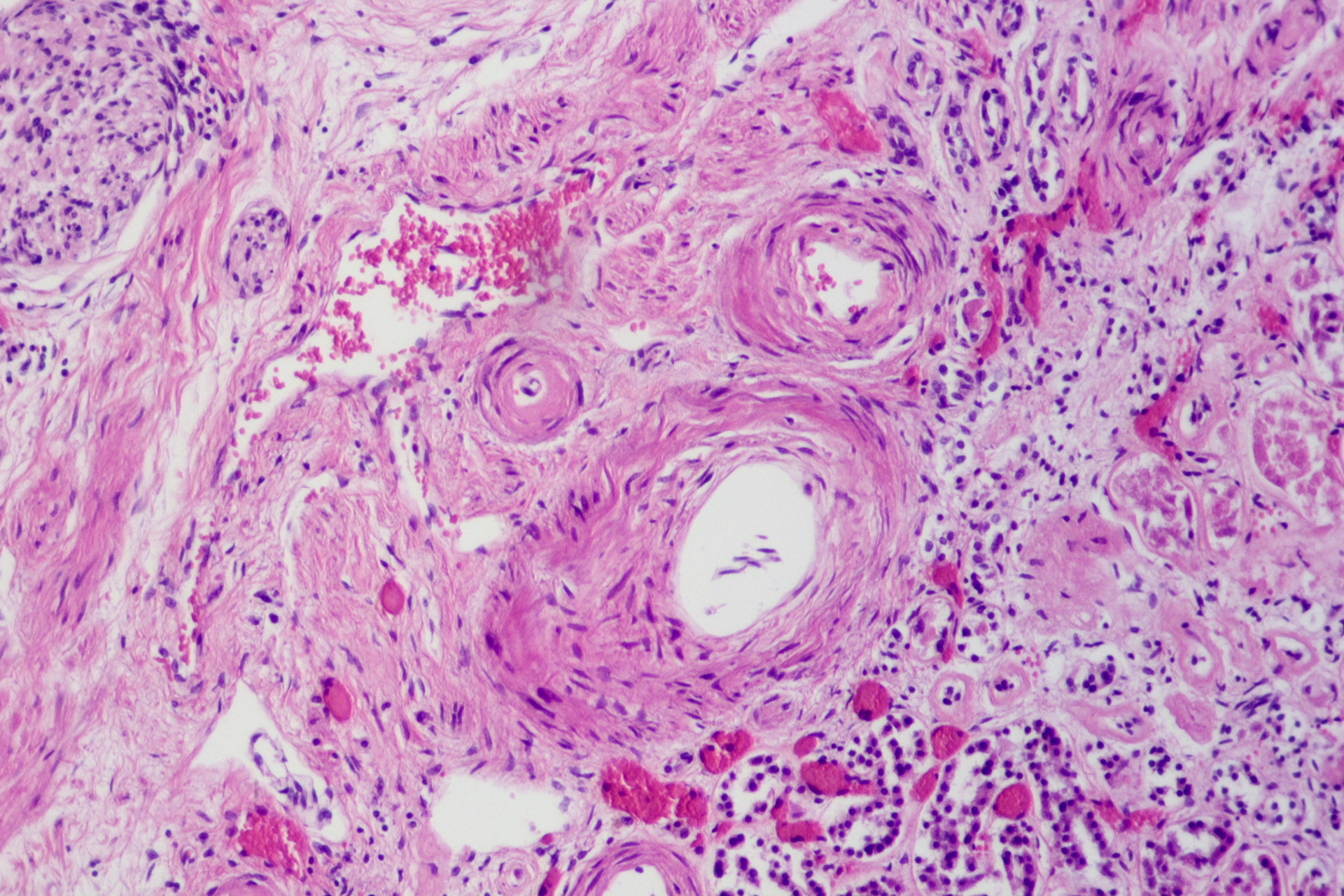 Arteriolosclerosis (microangiopathy), damage of arterioles due to chronic arterial hypertension (high blood pressure), mostly found in the kidney but also in brain, retina, liver and other organs. This lesion is also found in Diabetes mellitus.